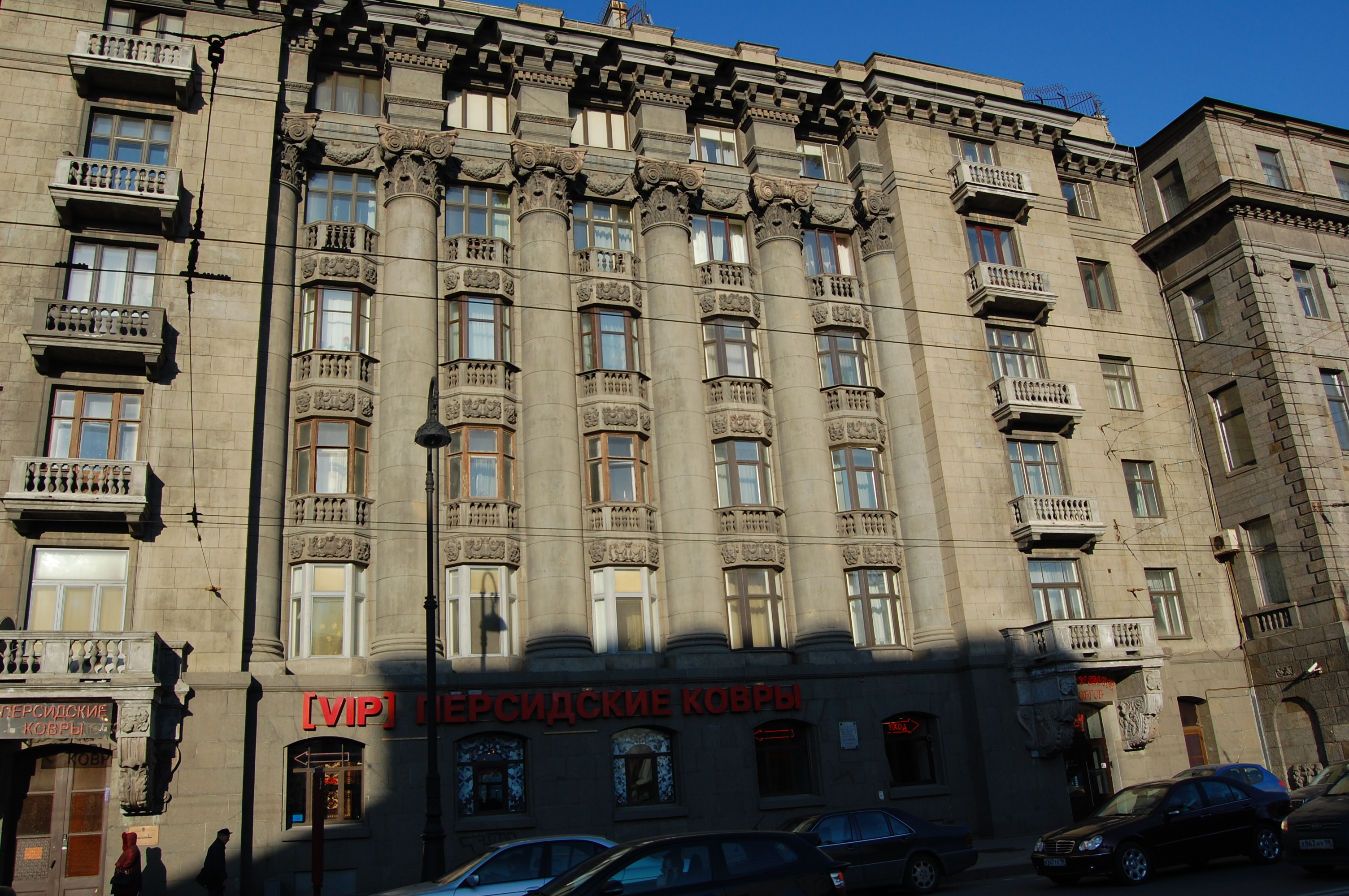 Kamennoostrovsky Prospekt #65 in St Petersburg by Vladimir Shchuko.